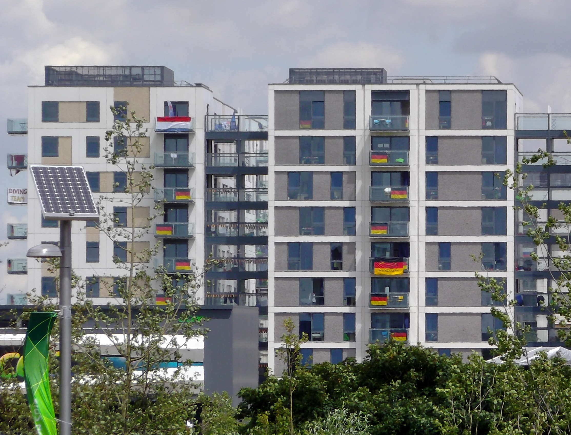 London 2012 Olympics 181 Olympic Village Stratford